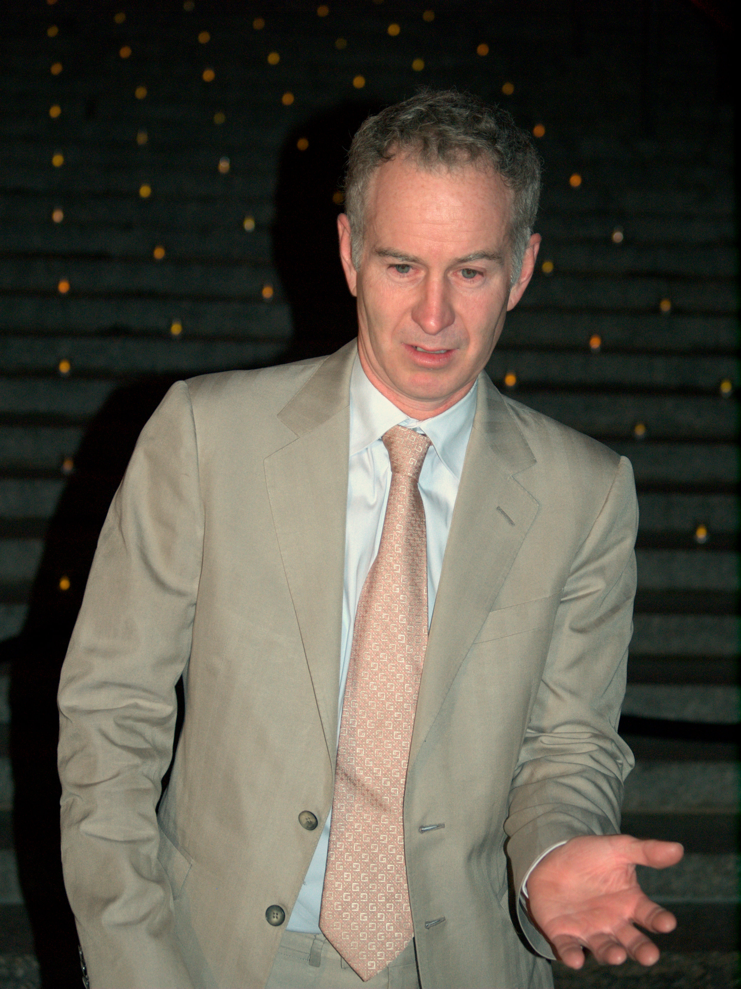 John McEnroe at the Vanity Fair kickoff part for the 2009 Tribeca Film Festival.